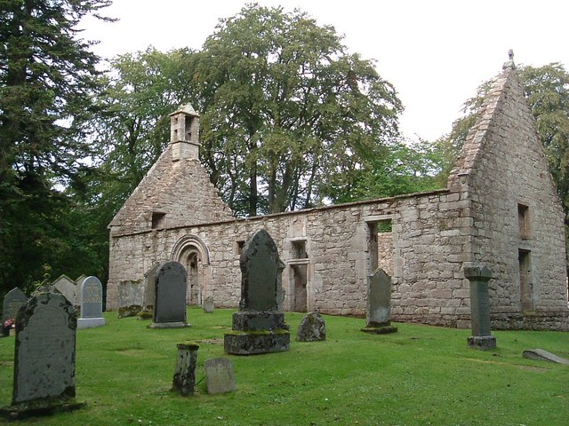 Saint Mary's, Auchindoir The belfry dates from 1664 but heraldic stones inside are dated 1557. There is a fine example of dog-toothing around the door. Altogether a most tranquil setting.